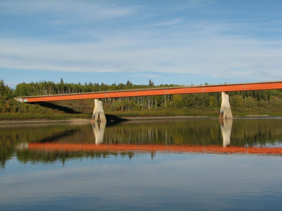 A view of the Peace River Bridge from the south bank facing north.